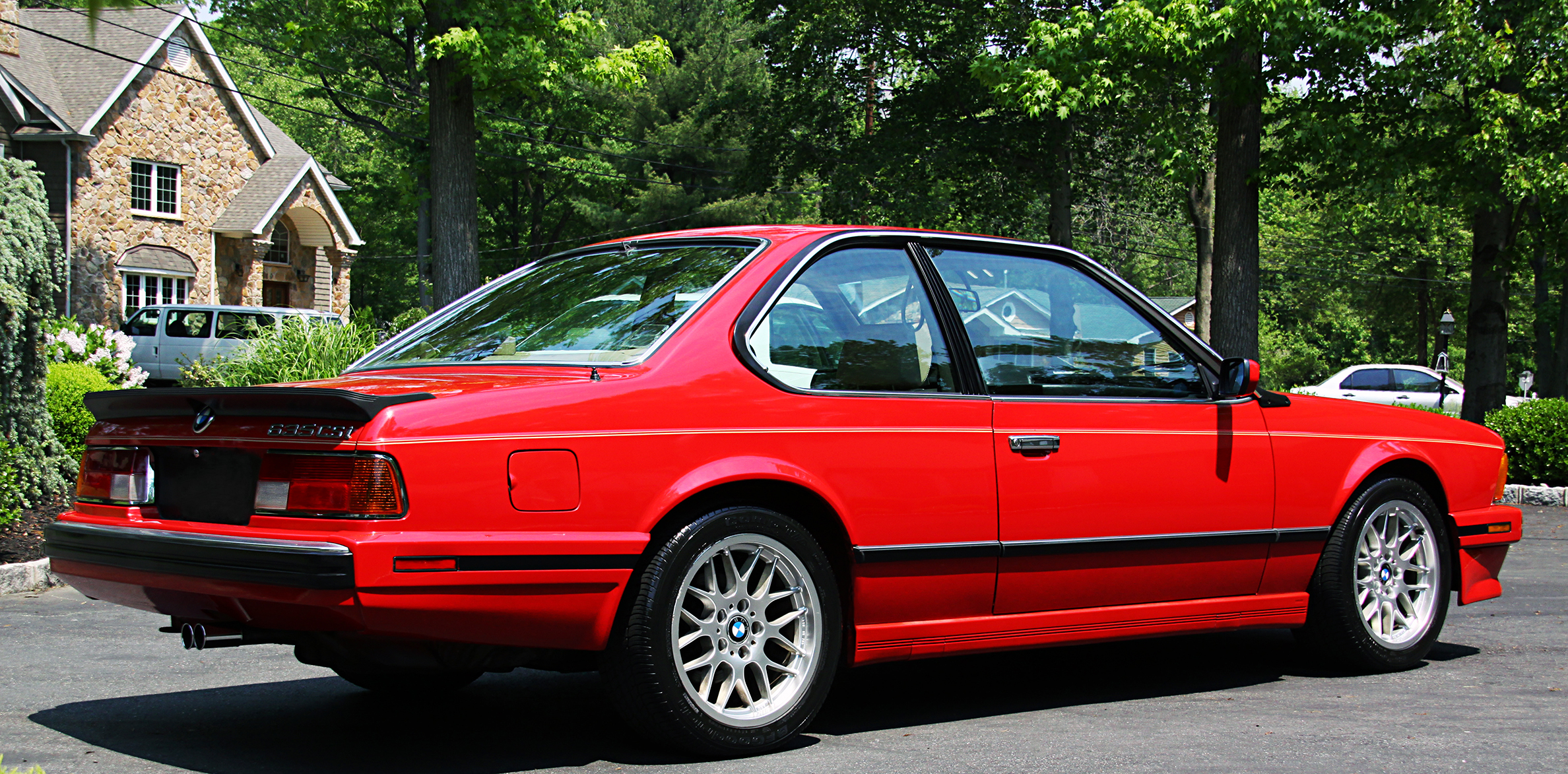 1988 BMW 635CSi